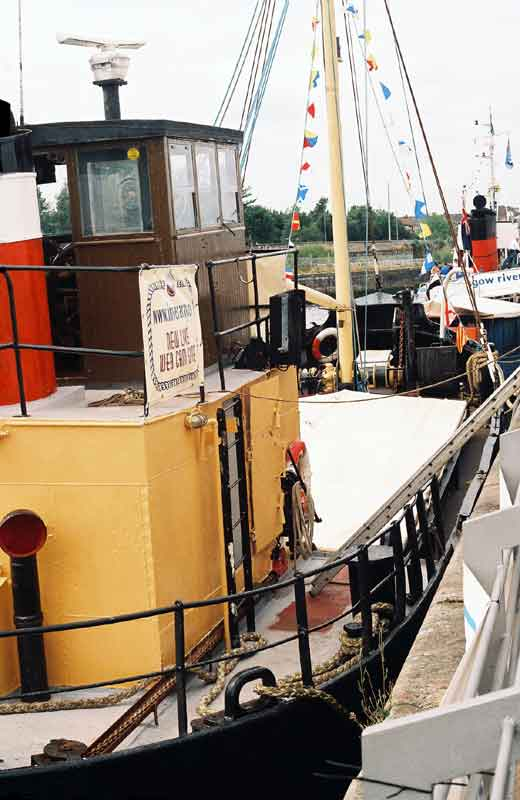 Deck of the Clyde Puffer Eilean Eisdeal (built in Hull in 1944) at the Glasgow River Festival in 2005. photograph taken by dave souza